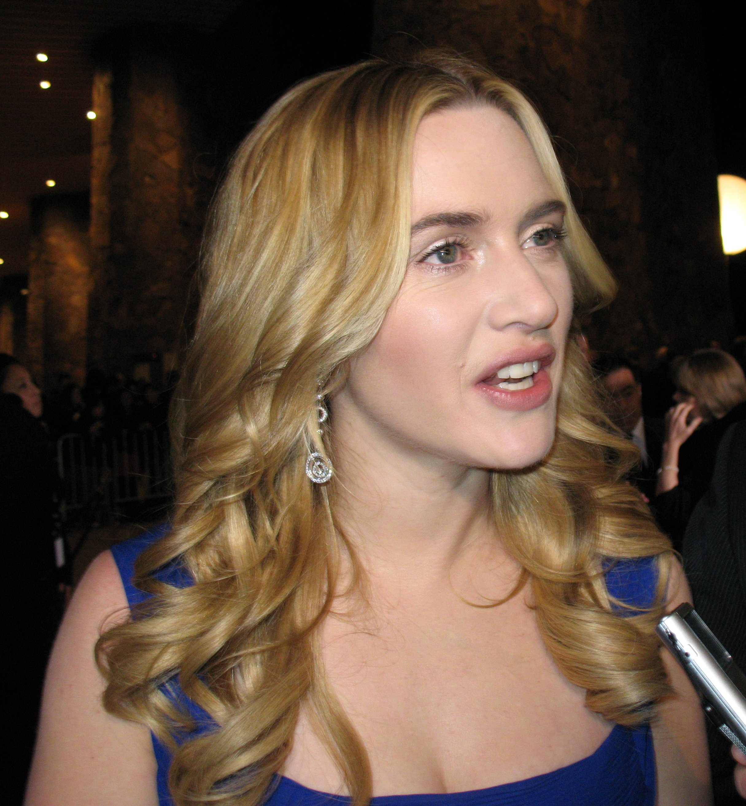 English actress Kate Winslet.